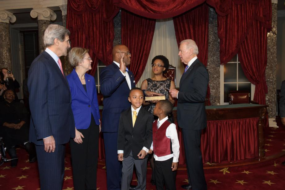 Senator William "Mo" Cowan being sworn in as a United States Senator for Massachusetts by Vice President Joseph Biden on the floor of the United States Senate, From left to right: Secretary of State John Kerry, Senator Elizabeth Warren, Senator Mo Cowen, his wife, Stacey Cowen, Vice President Joe Biden. In front: Cowan's two sons